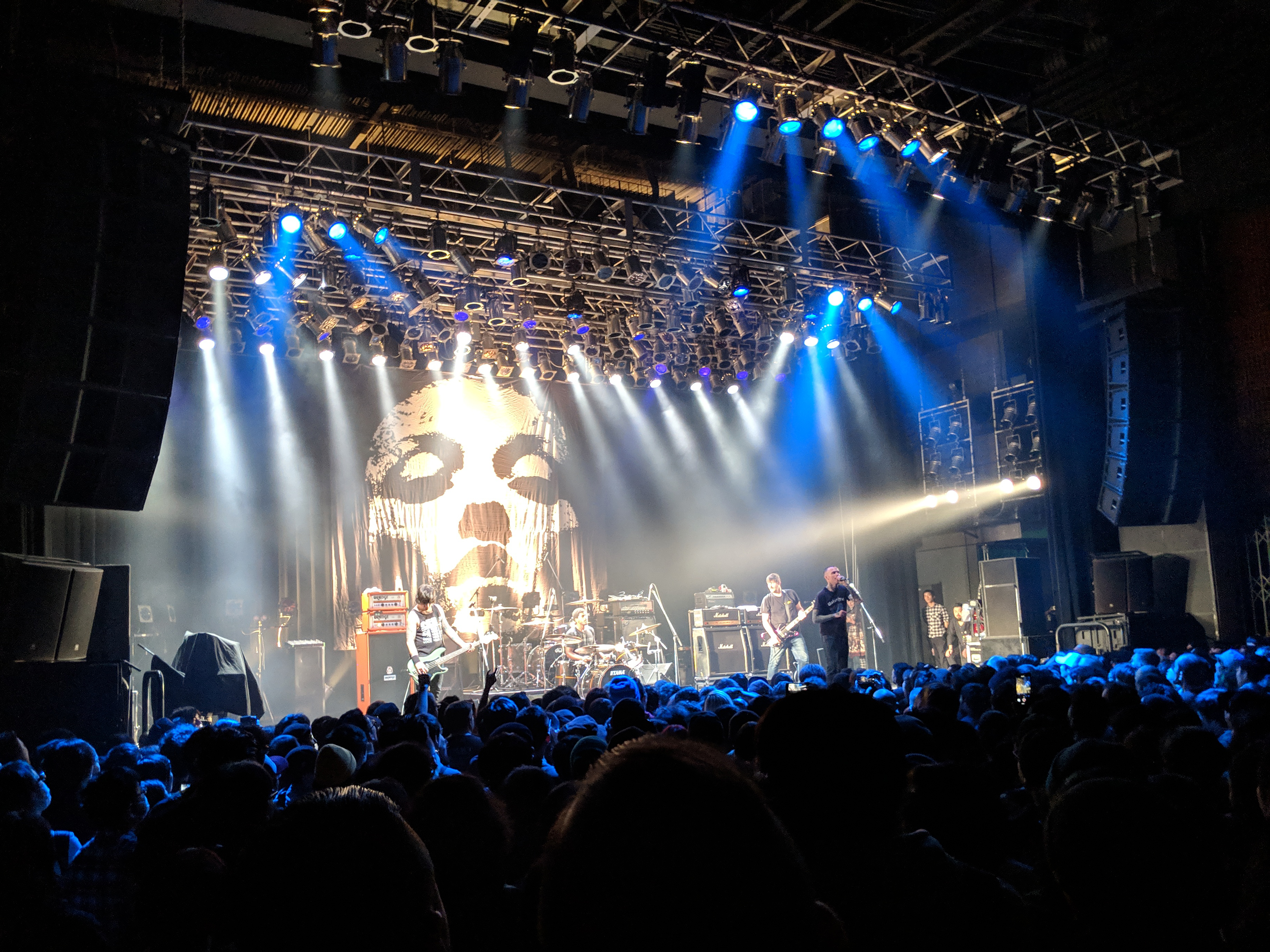 American hardcore punk band Converge performing live on 16 February 2019 at Tsutaya O-East Venue in Shibuya, Tokyo, Japan Performing: Jacob Bannon – lead vocals Kurt Ballou – guitars, backing vocals Nate Newton – bass, backing vocals Urian Hackney – drums (temporary replacement for Converge drummer Ben Koller, who was absent due to recovering from an injury)